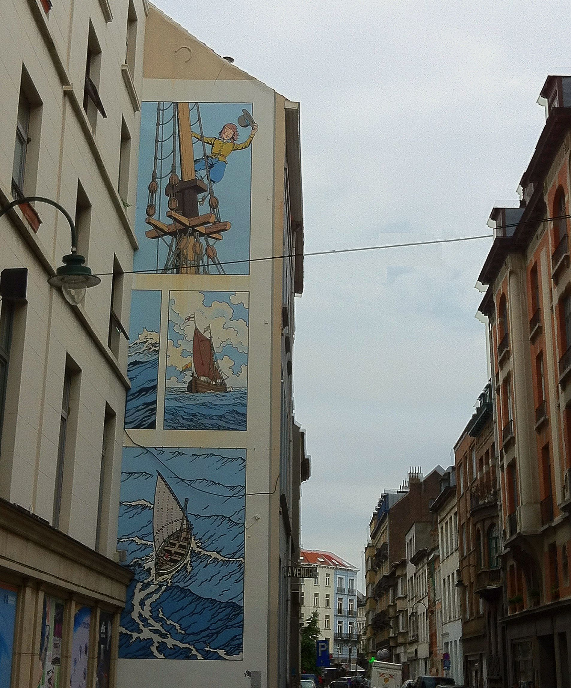 Cori. Brussels, Rue des Fabriques